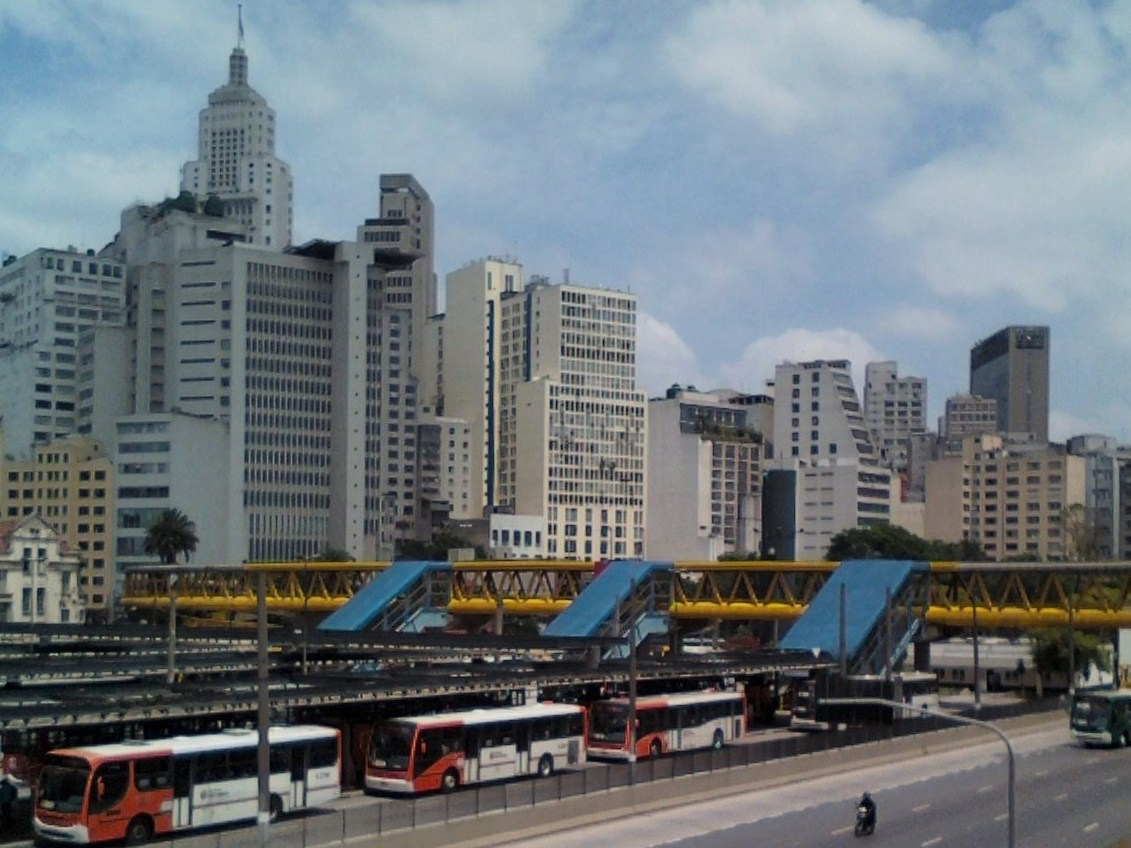 Bus station "Terminal Parque Dom Pedro in São Paulo , Brazil.